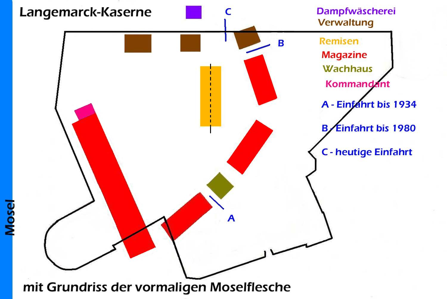 Map of the Langemarck-Kaserne at Koblenz (Germany)